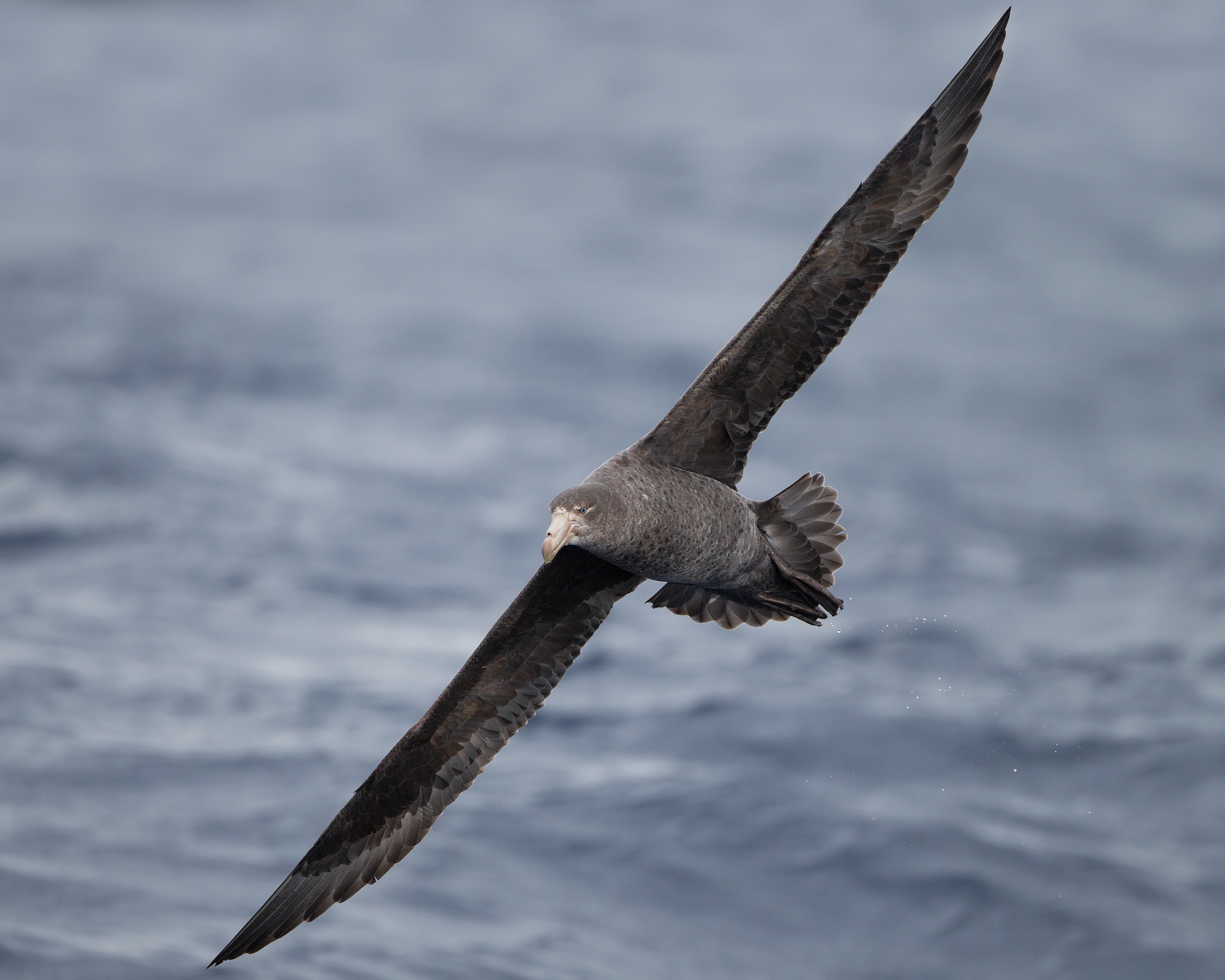 Immature Northern Giant Petrel (Macronectes halli) in flight, East of the Tasman Peninsula, Tasmania, Australia